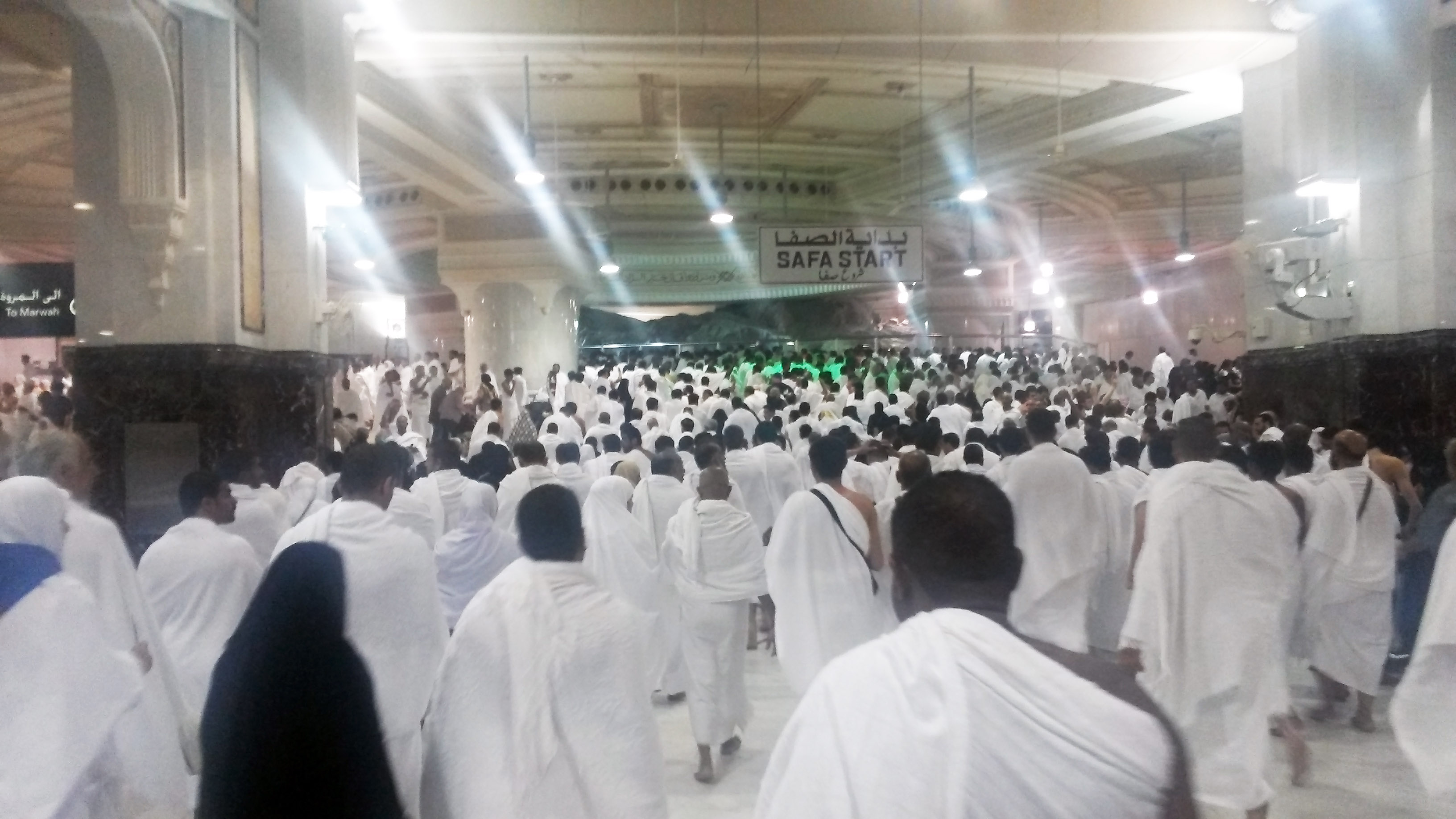 Sa'yee